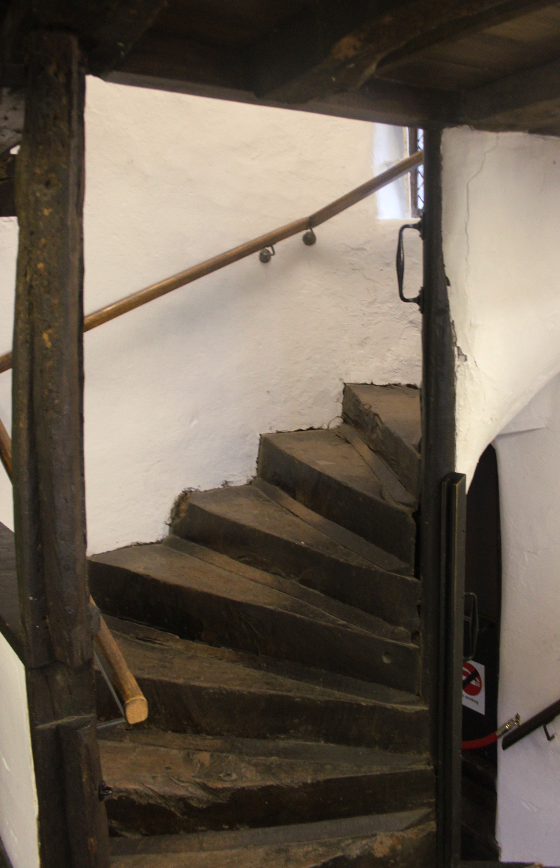 The twisting stairs at King John's Hunting Lodge, Axbridge